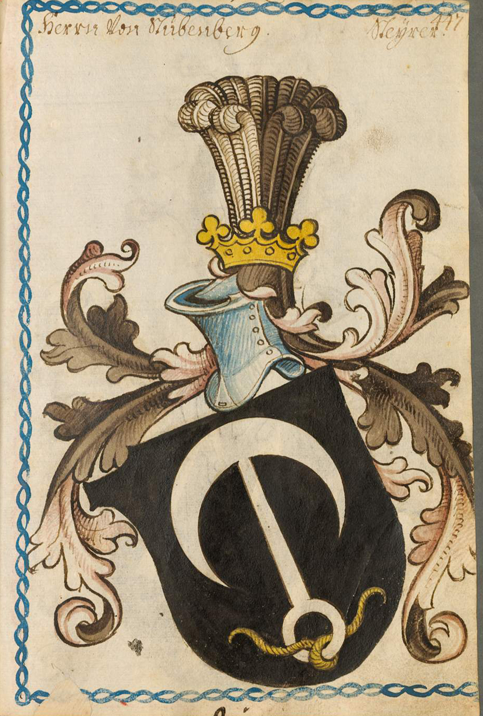 page 452 of “Scheibler’sches Wappenbuch” (“Scheibler’s listing of coat of arms”), showing the heraldic charge called “Wurfparte” in German